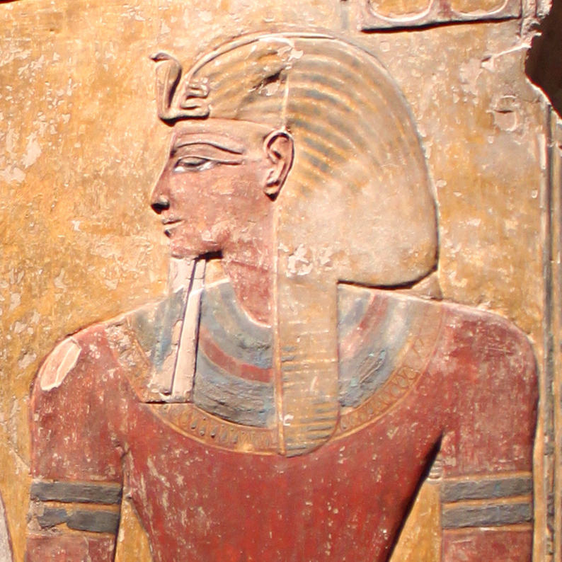 Fragment of a pillar: King Seti I in Front of the God Osiris